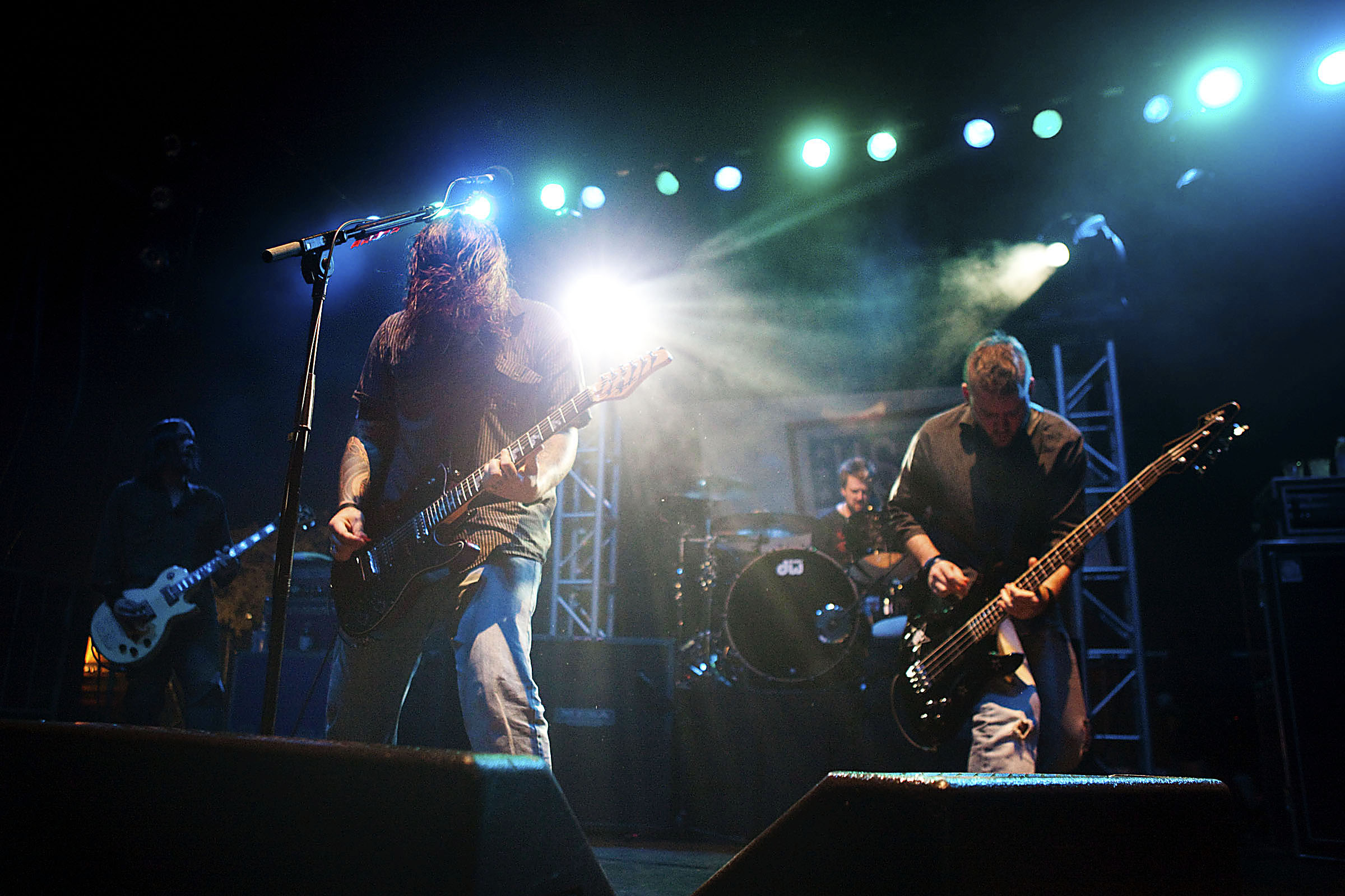 Wind-up Records rock band Seether shreds a song for a crowd of Marines, sailors and their families during a concert on Marine Corps Base Hawaii, Dec. 17, 2010. “There’s nothing like a bunch of fired-up Marines,” said Shaun Morgan, Seether’s frontman. “What you guys do is a selfless service, so the least we can do is come out here and honor you.” At the end of the free concert, sponsored by the United Service Organizations, Morgan gave a “shout-out” to Marines and sailors from 3rd Battalion, 3rd Marine Regiment, who recently returned from a seven-month deployment to Afghanistan in support of Operation Enduring Freedom. “Welcome back, guys,” he said.